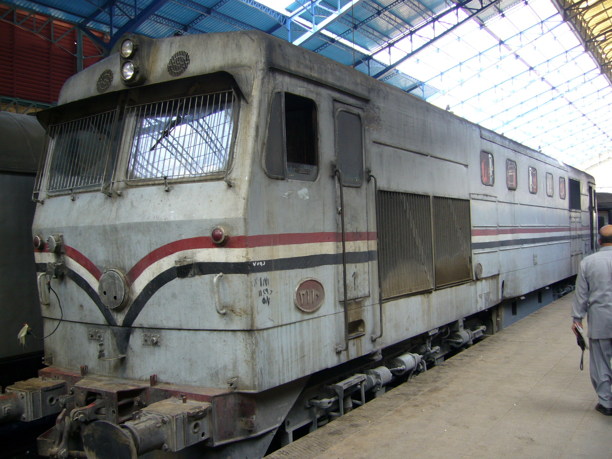 Egyptian National Railway It costs just 30 pounds and takes 3 hours ride from Cairo to Alexandria. This diesel locomotive is made at 1977.